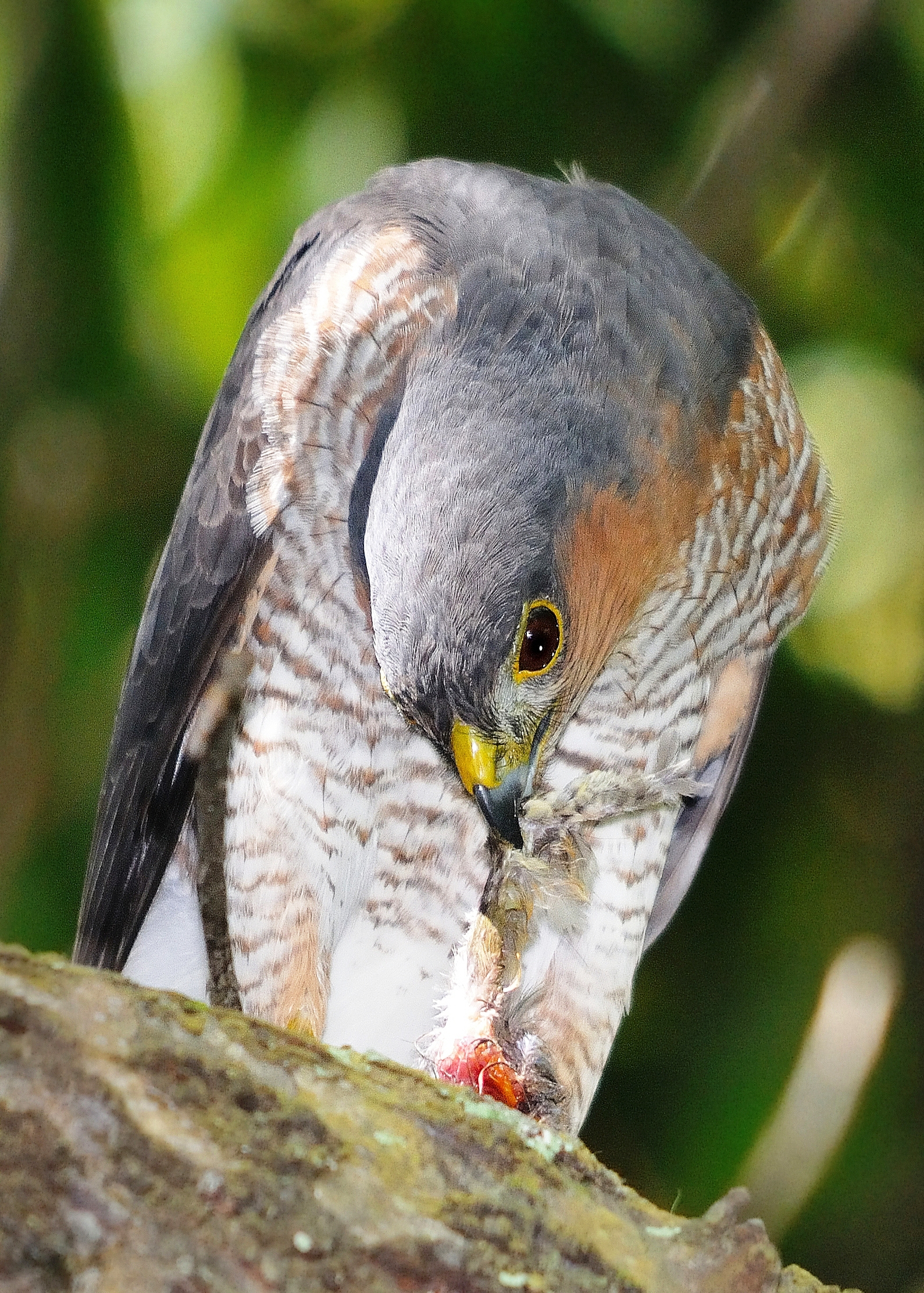 A Puerto Rican Sharp-shinned Hawk sitting on branch with head down eating